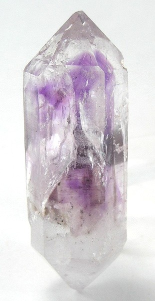 Quartz (Var.: Amethyst), Quartz Locality: Brandberg area, Brandberg District, Erongo Region, Namibia (Locality at ) Size: 6.8 x 1.8 x 1.8 cm. A superb doubly-terminated, complete and undamaged floater of Brandberg amethyst, with what appears to be an internal SCEPTERED phantom! It has a gorgeous "blush" of purple inside, which makes these crystals so unique. This is not only a very fine Brandberg amethyst, but a very distinctive and unusual one as well! Among the better doubly-terminated floaters I have had. Ex. Charlie Key Collection.